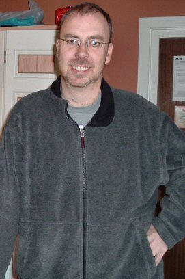 Record producer Nick David Photo taken during spring 2005, during an interview that appears in